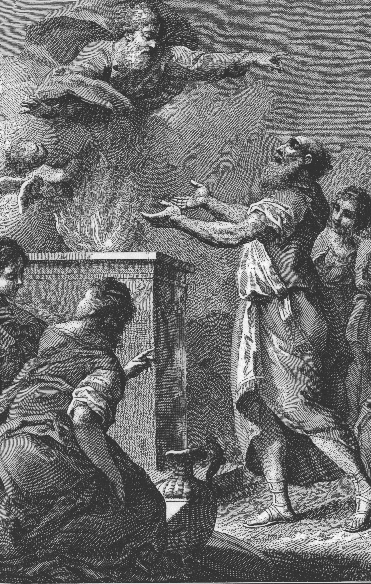 Moses and the elders see God, by Jacopo Amigoni (also named Giacomo Amiconi)